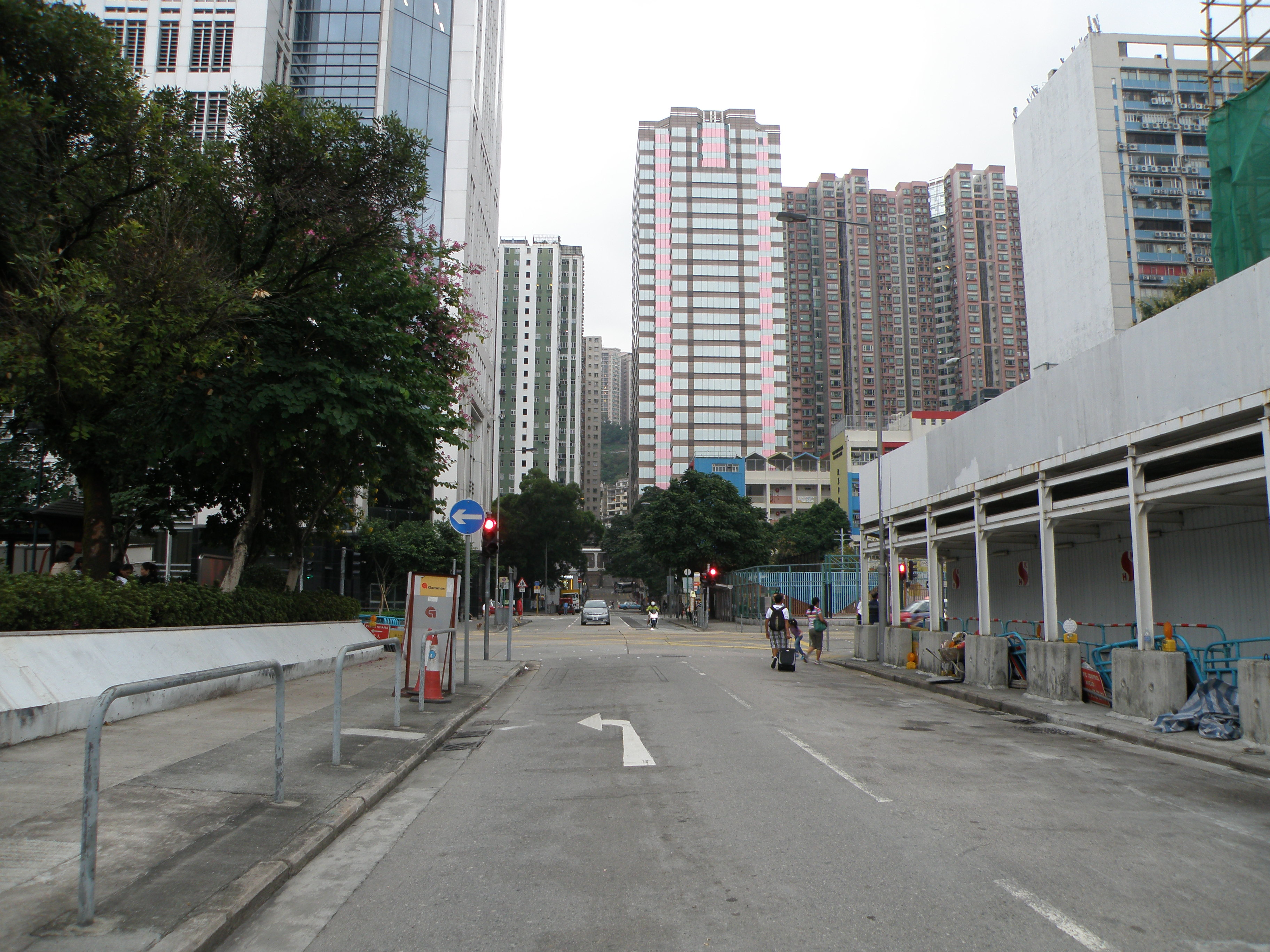 Tin Chiu Street in North Point, Hong Kong.